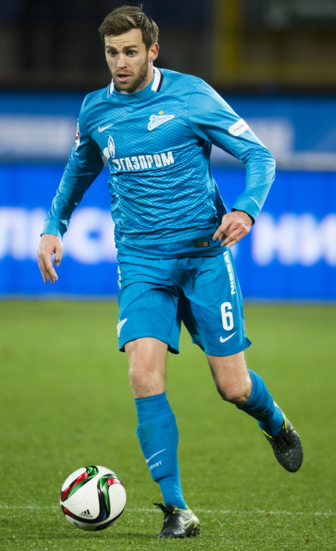 Nicolas Lombaerts